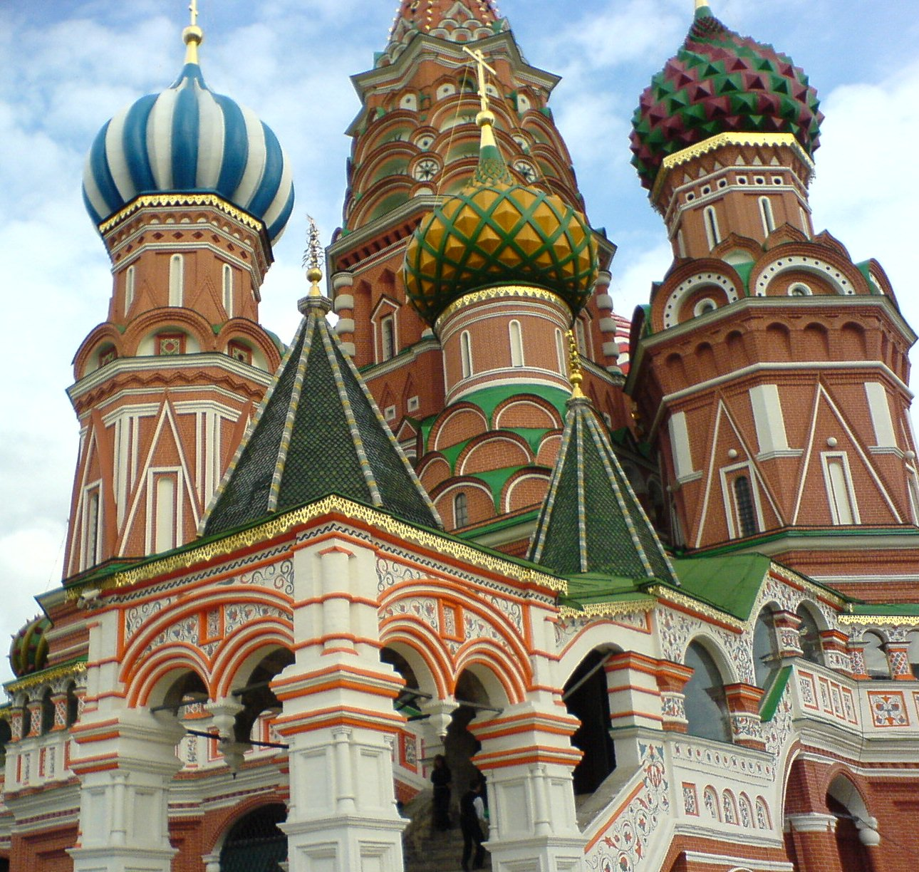 Moscow, Krasnaya Square, Intercession Cathedral (St. Basil's), closeup of the northern entrance